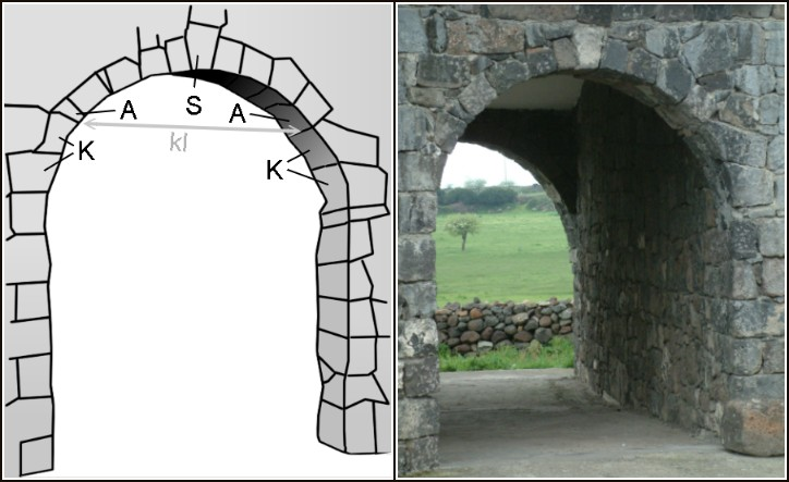 Elements of an arch. Artist: Anton (2005 rp)